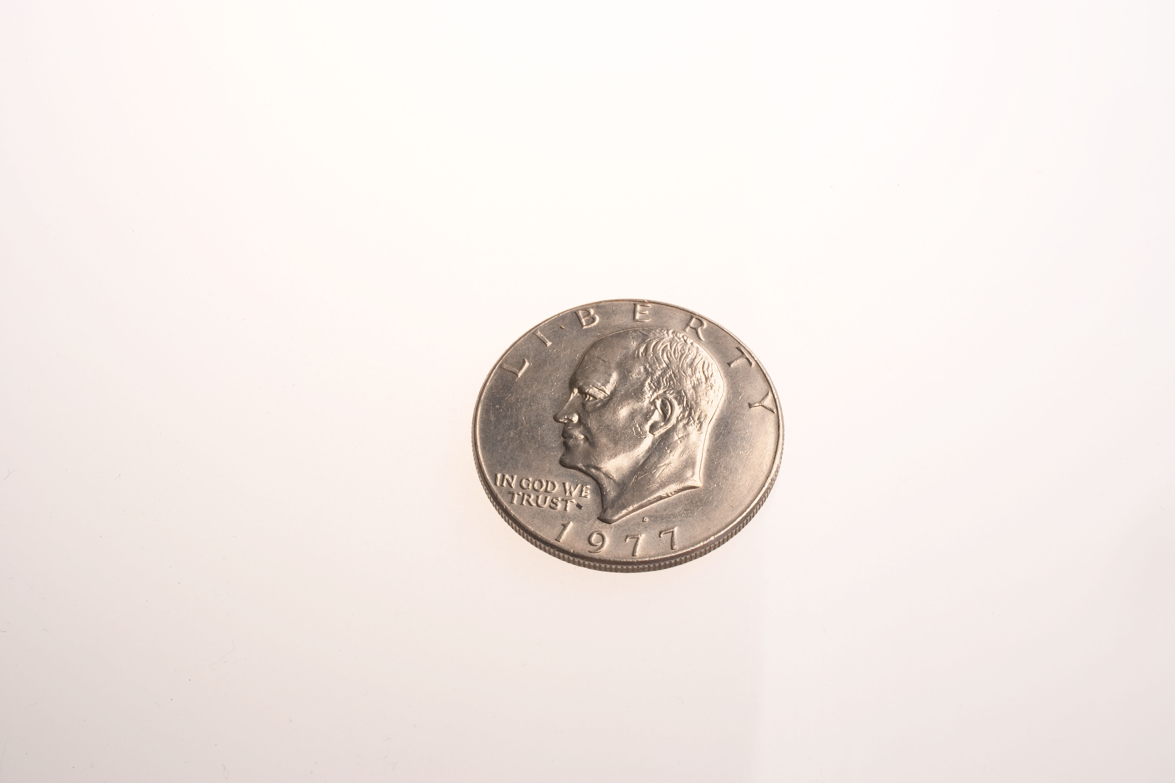 This coin may appear to be an Eisenhower silver dollar, but it is really a concealment device. It was used to hide messages or film so they could be sent secretly. Because it looks like ordinary pocket change, it is almost undetectable. For more information on CIA history and this artifact please visit